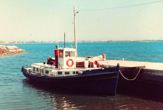 Harbour Launch (Diesel) of HM Naval Base Bermuda, HMS Malabar, tied to the Cut Wharf (opposite Moresby House) at the Royal Naval Dockyard on Ireland Island, Bermuda, circa 1988. The launch was sunk at this wharf by Hurricane Dean in 1989 and subsequently re-floated.